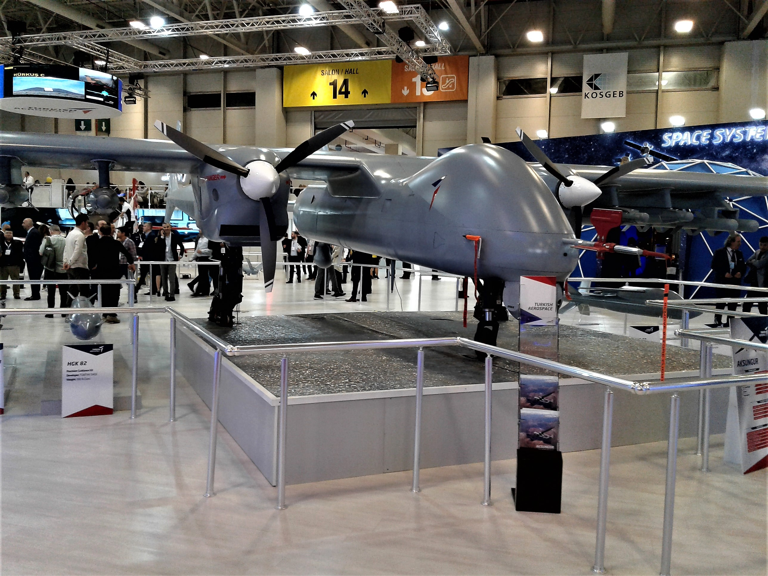 High payload capacity UAV TAI Aksungur at the IDEF 2019 in Istanbul, Turkey.